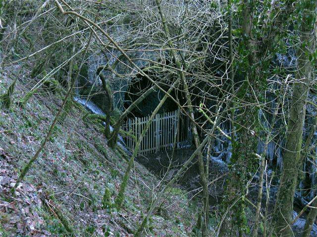 Northern end of Pencader Tunnel This is the north entrance of Pencader Tunnel. The gates that block the entrance can clearly be seen down on the valley floor at the level of an adjacent river. The tunnel was part of the now dismantled line from Carmarthen to Aberystwyth.